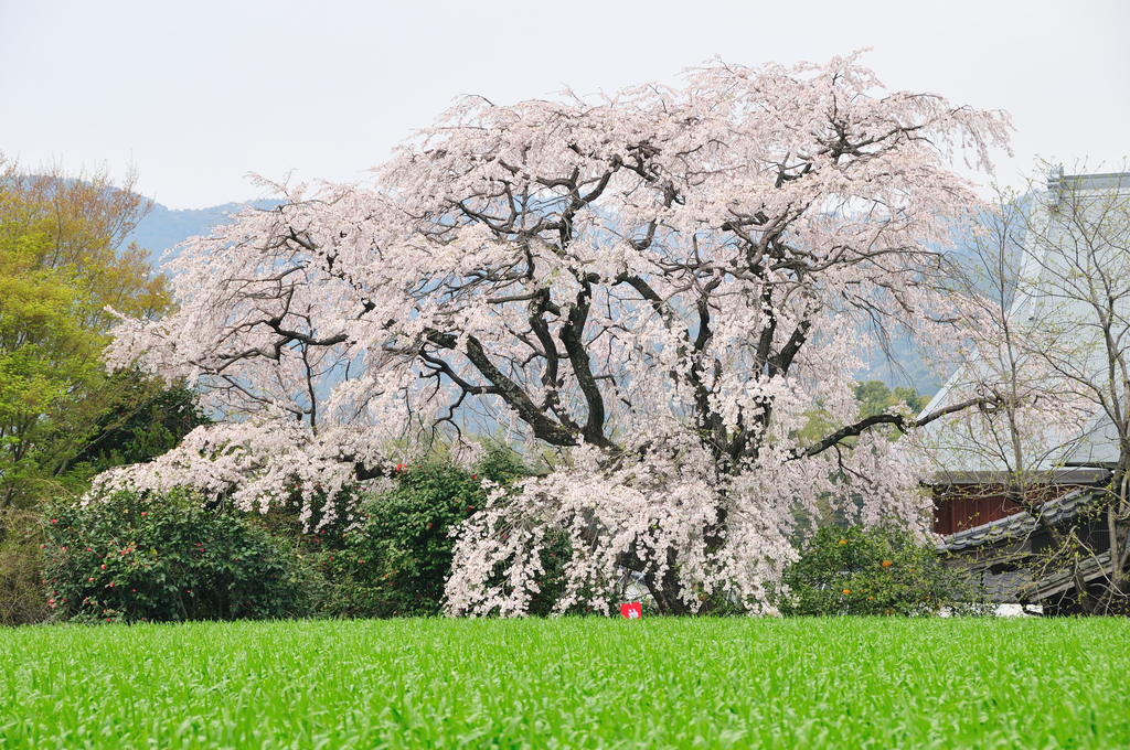 Prunus pendula(shidare-zakura) at Hōshōji Temple in Kanzaki city, Saga pref.